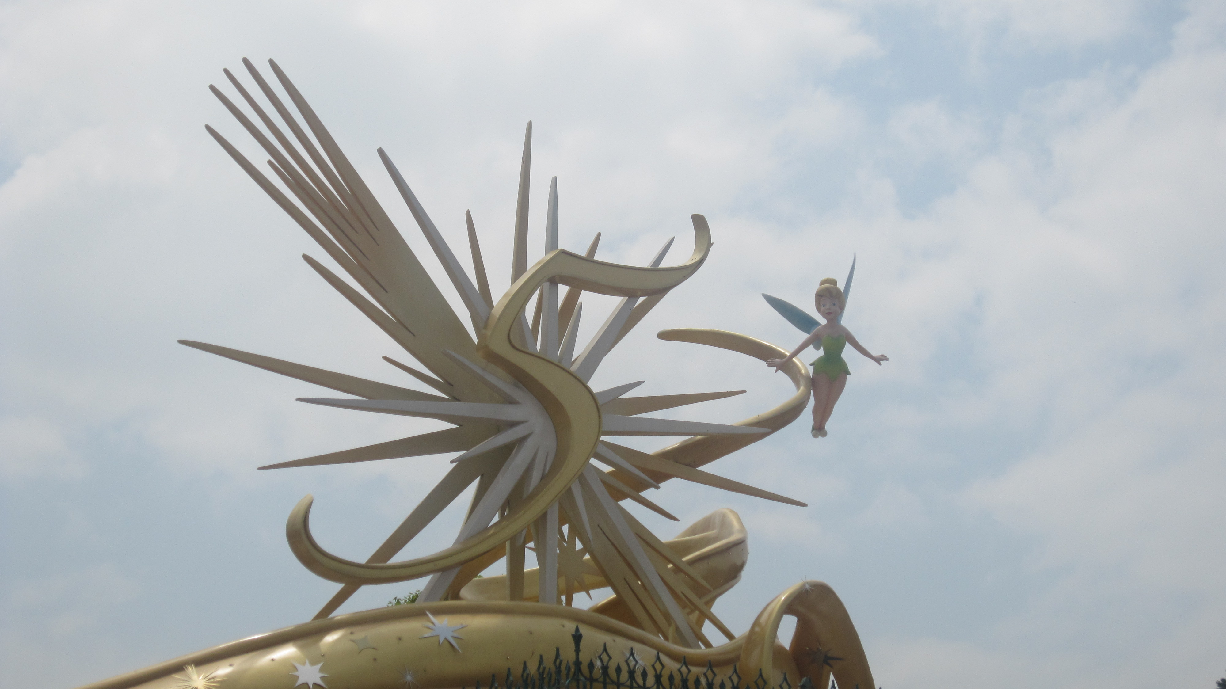 Hong Kong Disneyland 5 anniversary logo